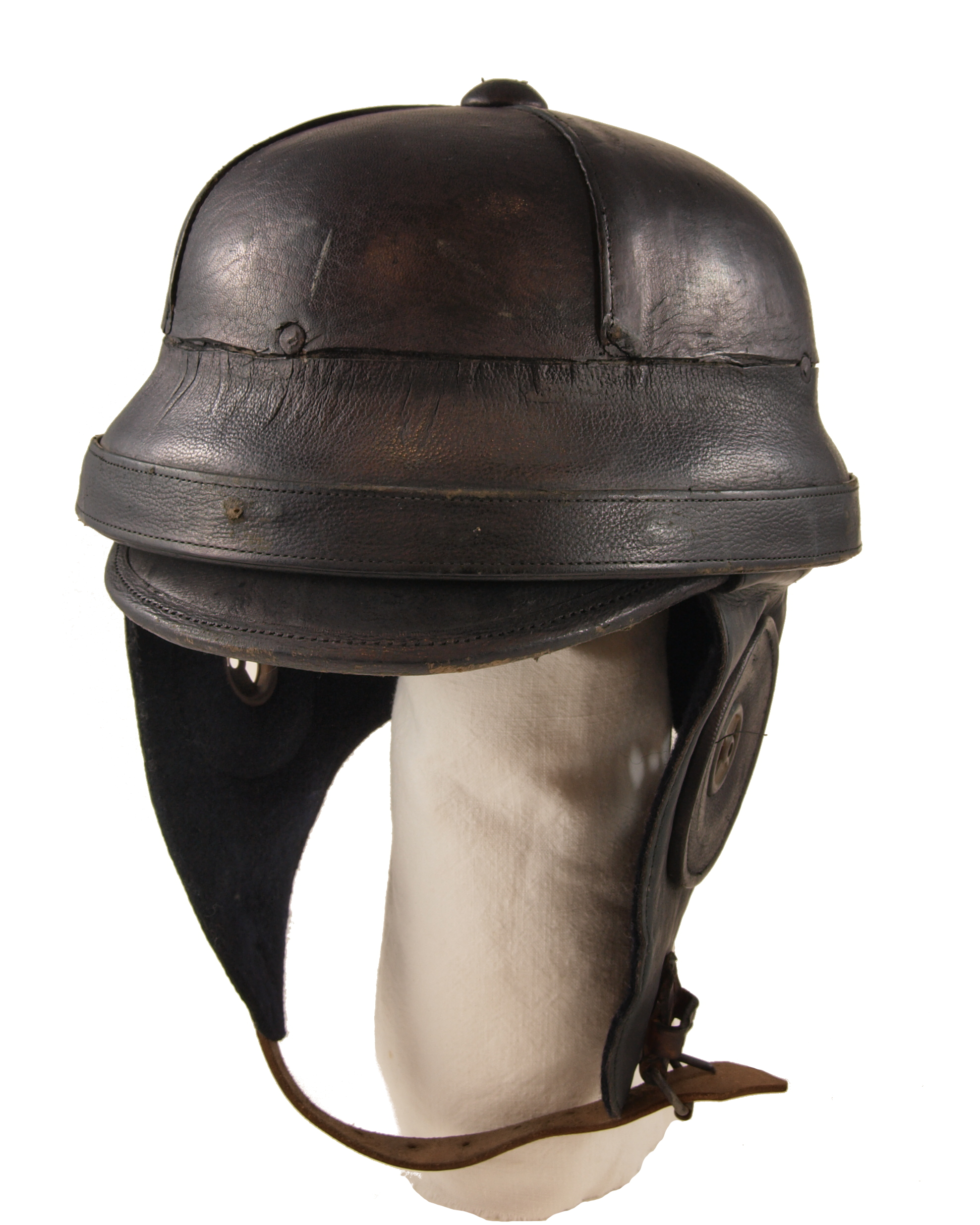 German pilot helmet of World War I. Hat size 57. Made of Leather, wool, cotton/linnen and metal. Dated to 1910s. Inventory No. 1994,42. Front right. Height: 150 mm (5.9 in). Width: 210 mm (8.3 in). Depth: 225 mm (8.9 in).